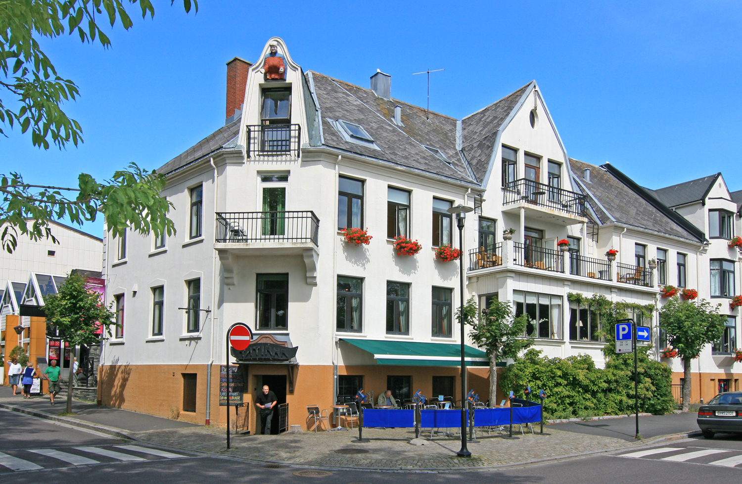 Hotell Wasilioff, Stavern, Norway.